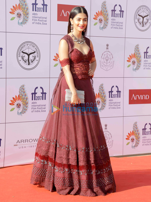 Pooja Hegde grace closing ceremony of IFFI 2017 in Goa